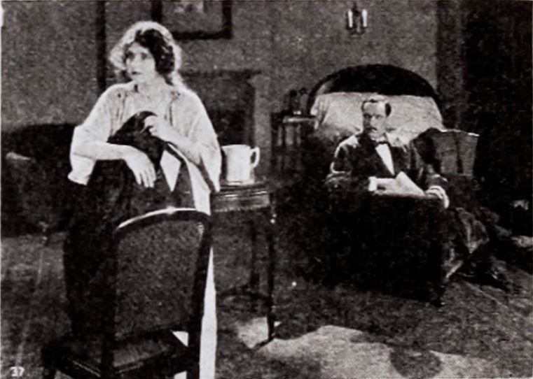 Still from the American drama film The Sleepwalker (1922) with Constance Binney and Bertram Grassby, on page 59 of the April 29, 1922 Exhibitors Herald.